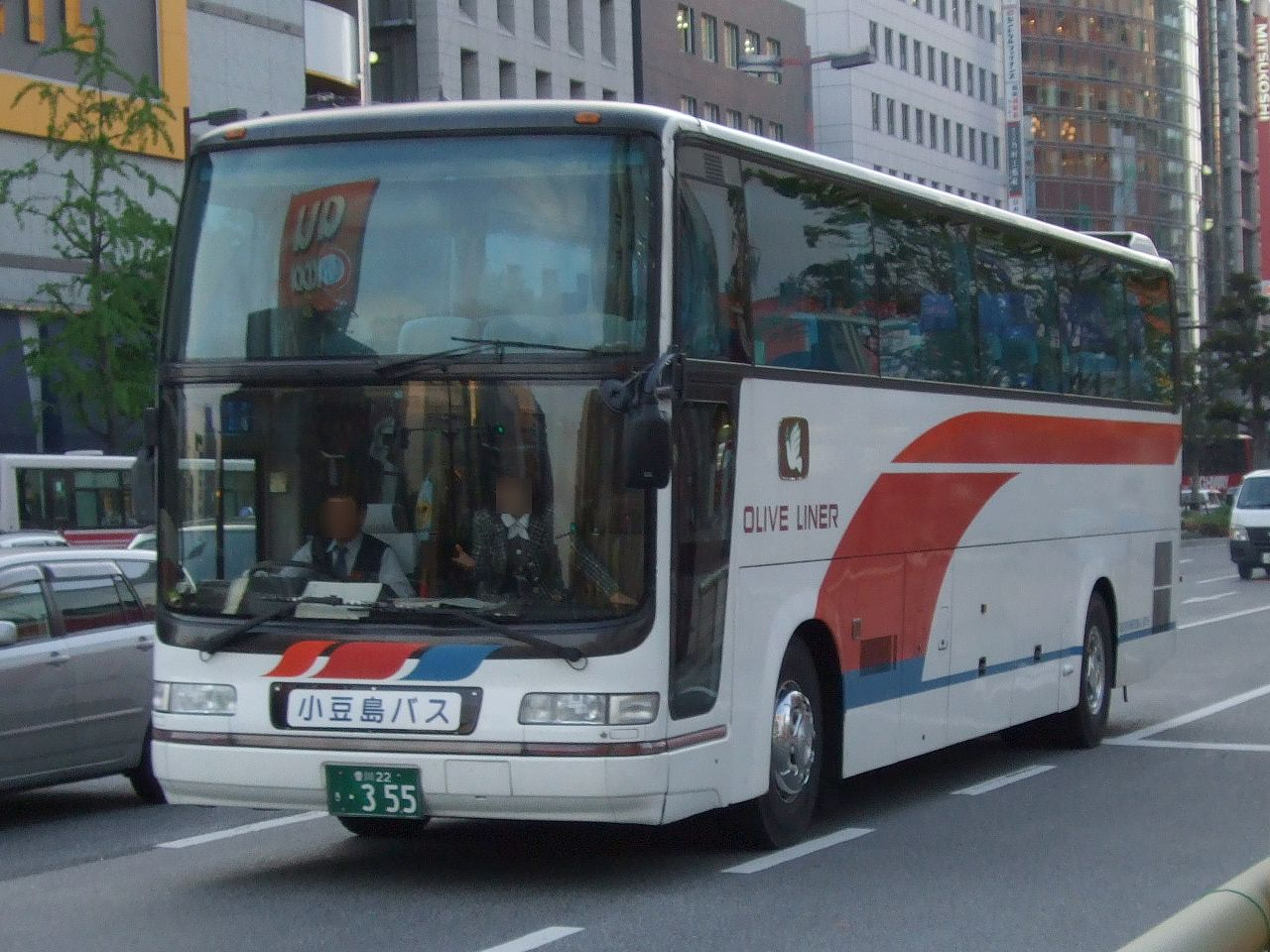 Shodoshima bus. See below.